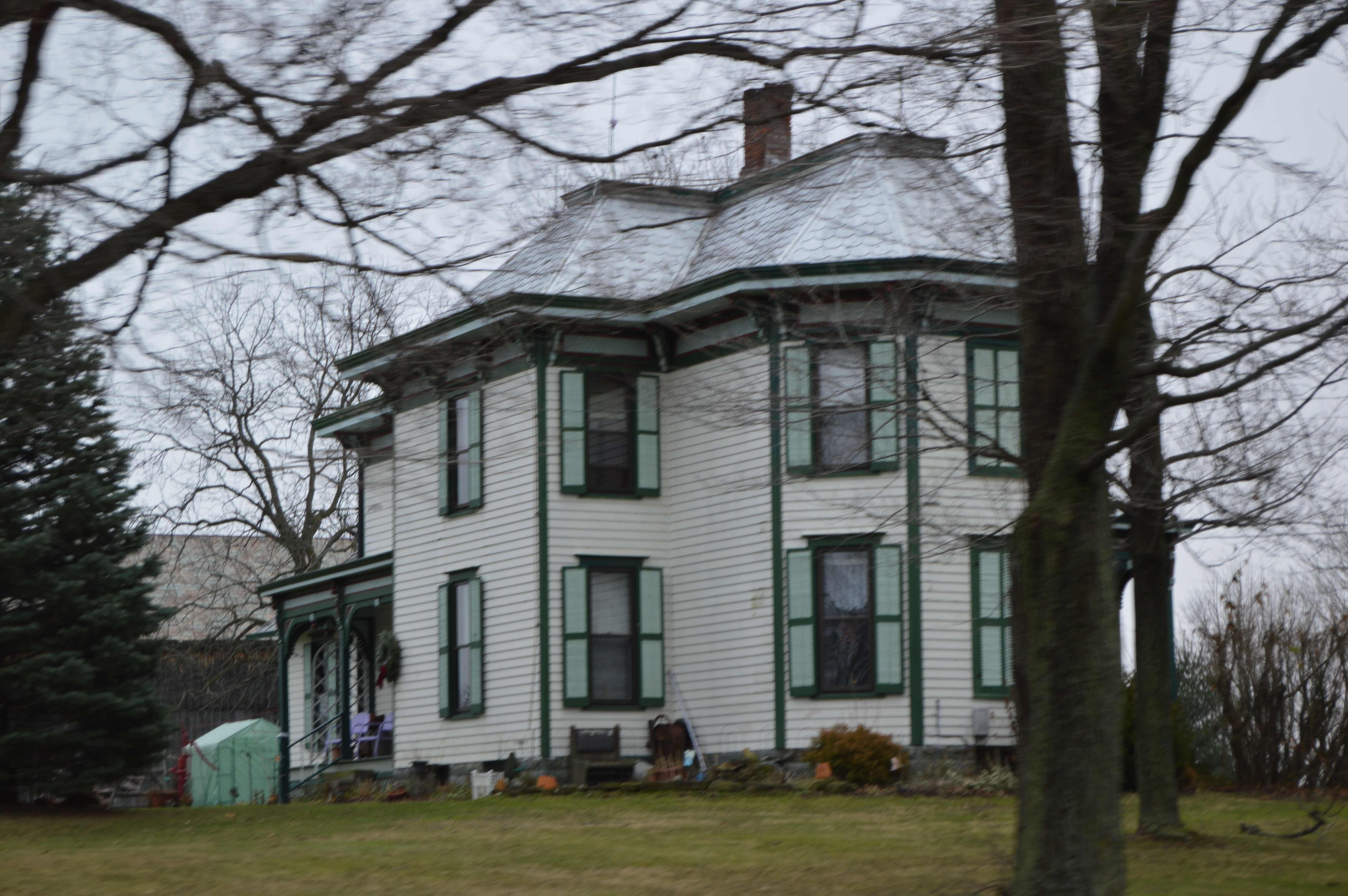 Front of the Henry Bradford Farmhouse, located along State Route 511 north of Rochester in Rochester Township, Lorain County, Ohio, United States. Built in 1889, it is listed on the National Register of Historic Places.